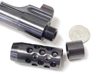 Removable muzzle brake and thread cap for a custom .358-378 RG (9 to 9.6 mm) hunting rifle